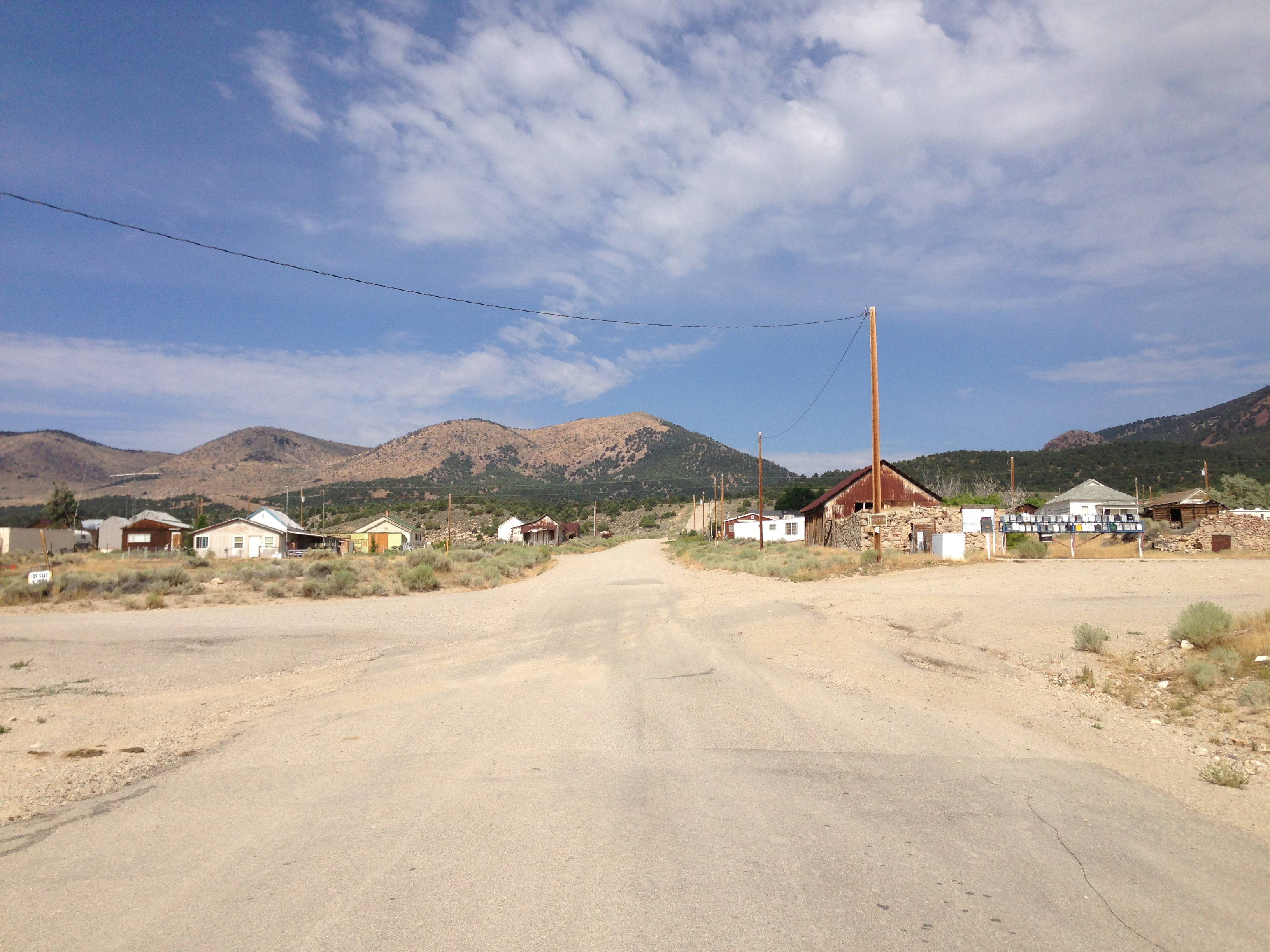 View west at the west end of former Nevada State Route 489 (Cherry Creek Road, now part of White Pine County Route 21) in Cherry Creek, Nevada